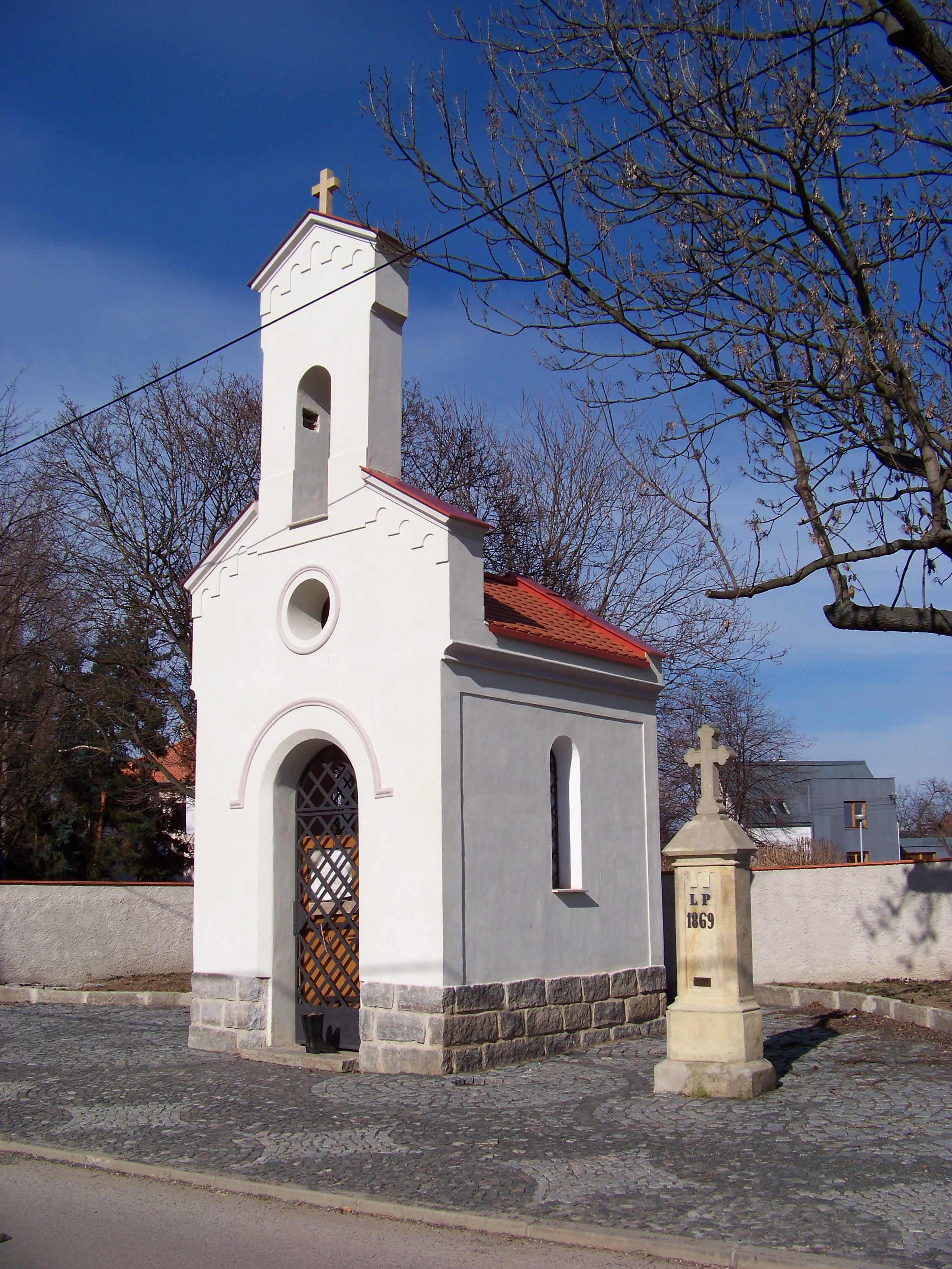 Kralupy nad Vltavou-Lobeček, Mělník District, Central Bohemian Region, the Czech Republic. Ve Starém Lobečku and Vltavská street, a chapel (belfry) and a cross.